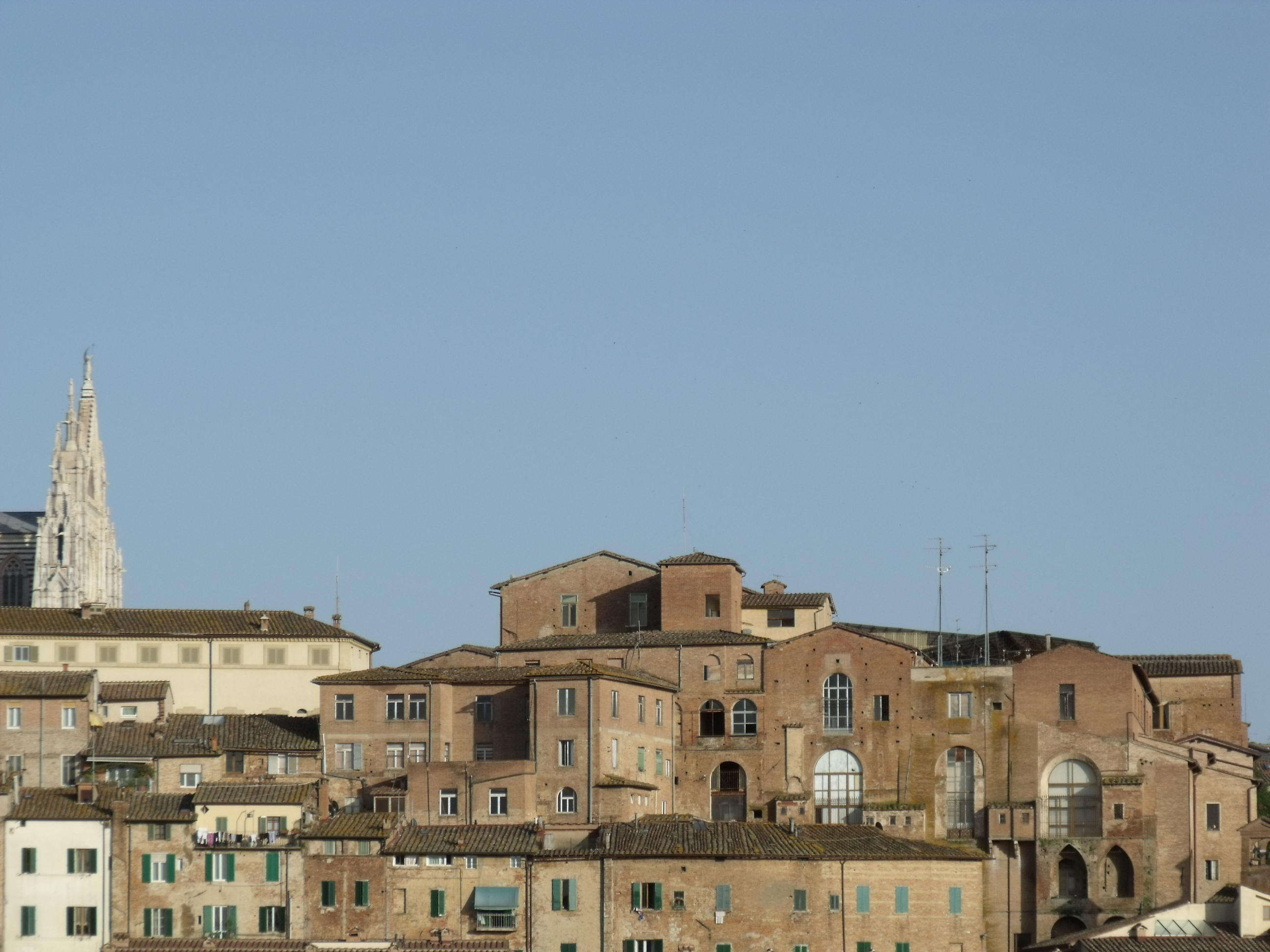 The Hospital of Santa Maria della Scala in Siena, seen from San Prospero